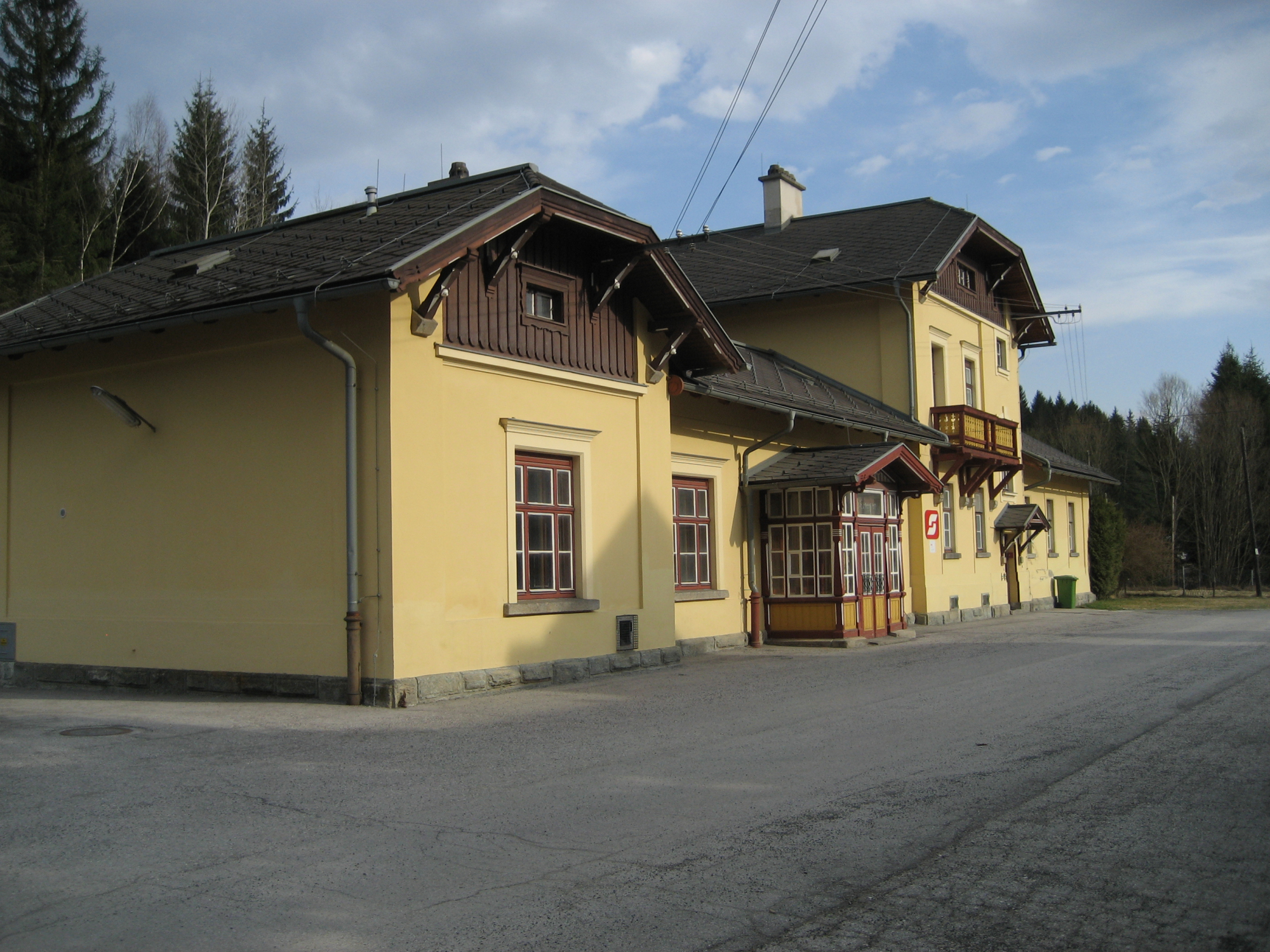 train station Ausschlag-Zöbern in Lower Austria